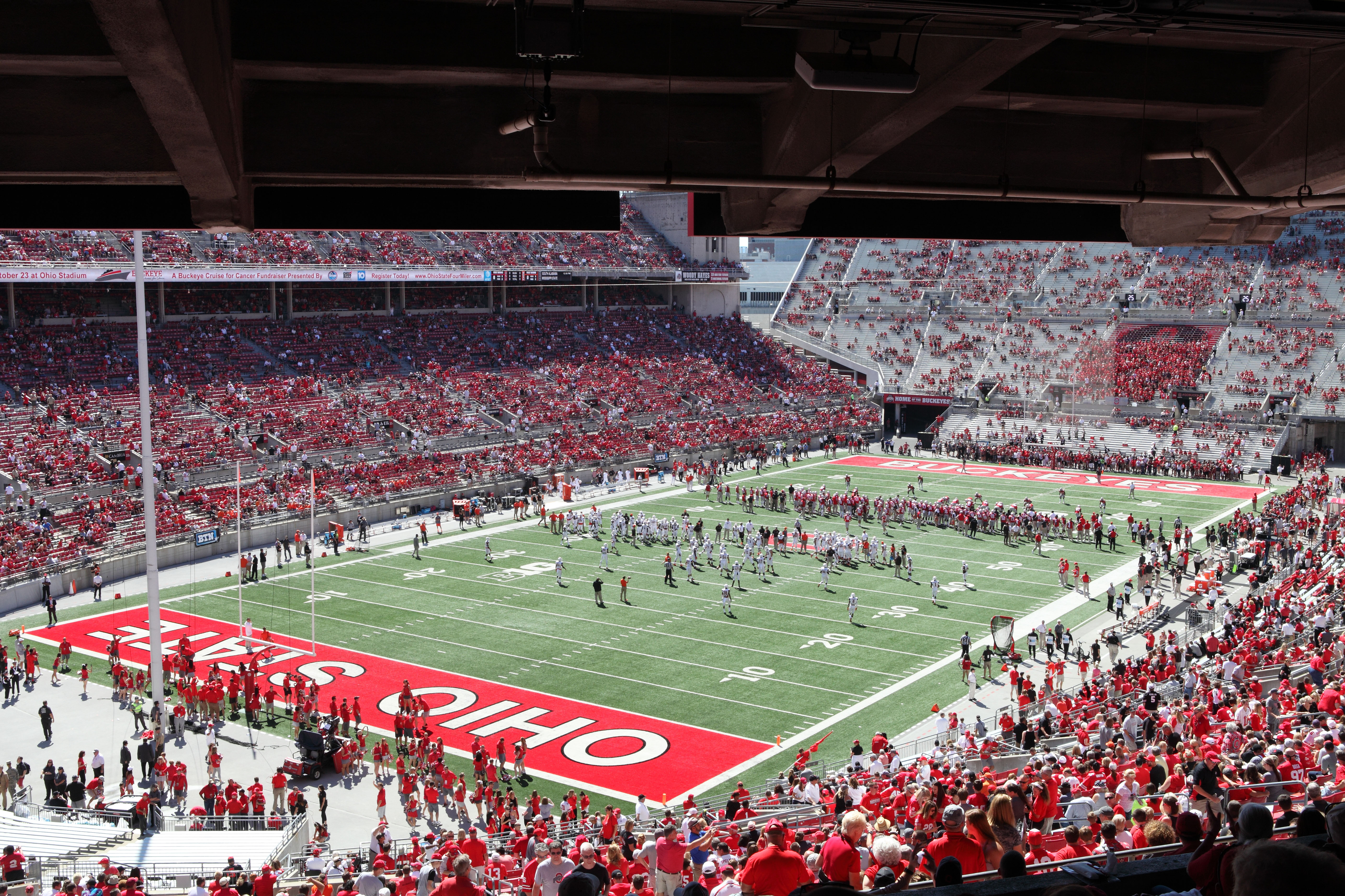 Bowling Green State University versus the Ohio State University football game in Ohio Stadium in Columbus, Ohio.